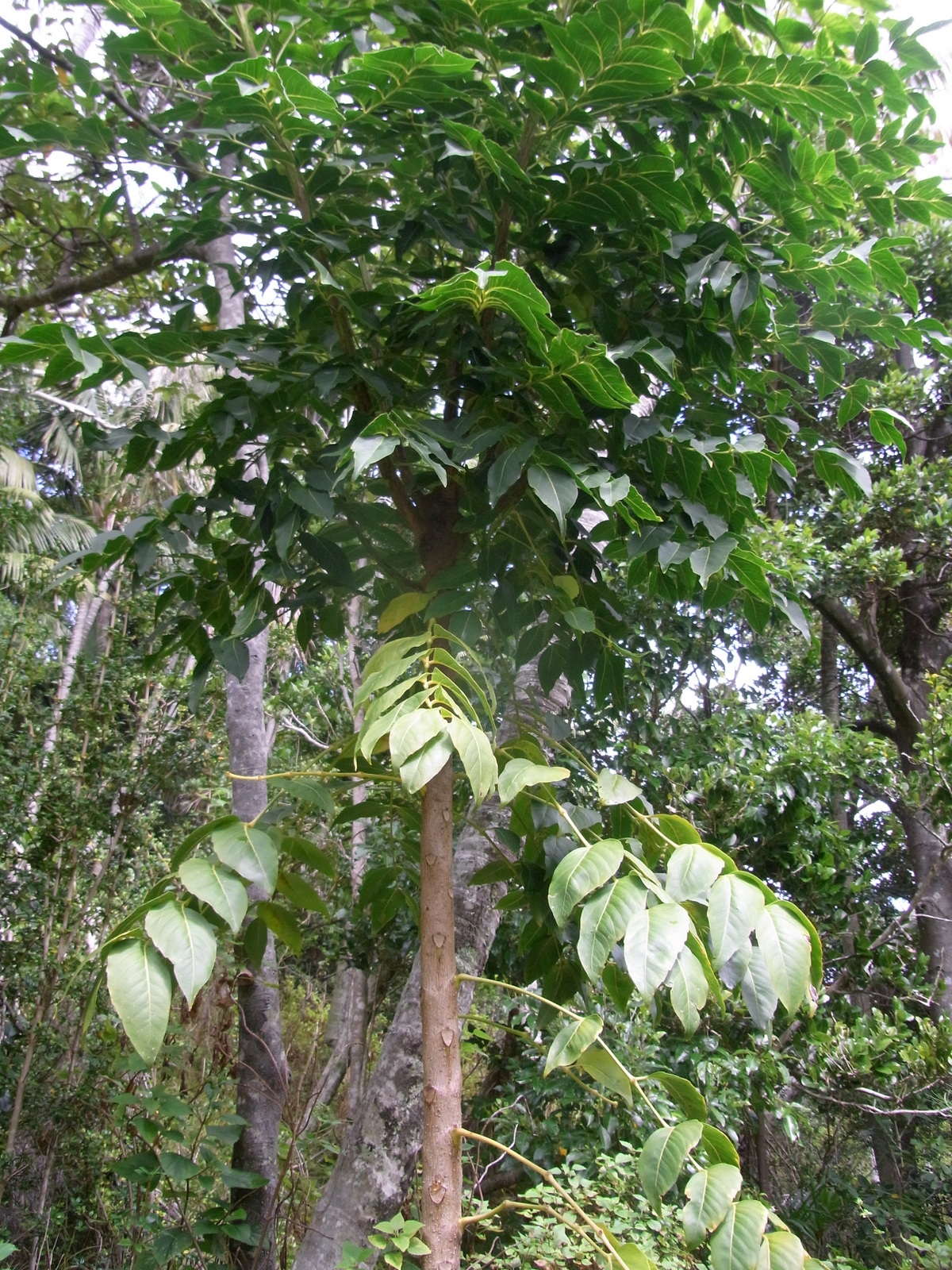 likely to be Polyscias cissodendron, Intermediate Hill, Lord Howe Island